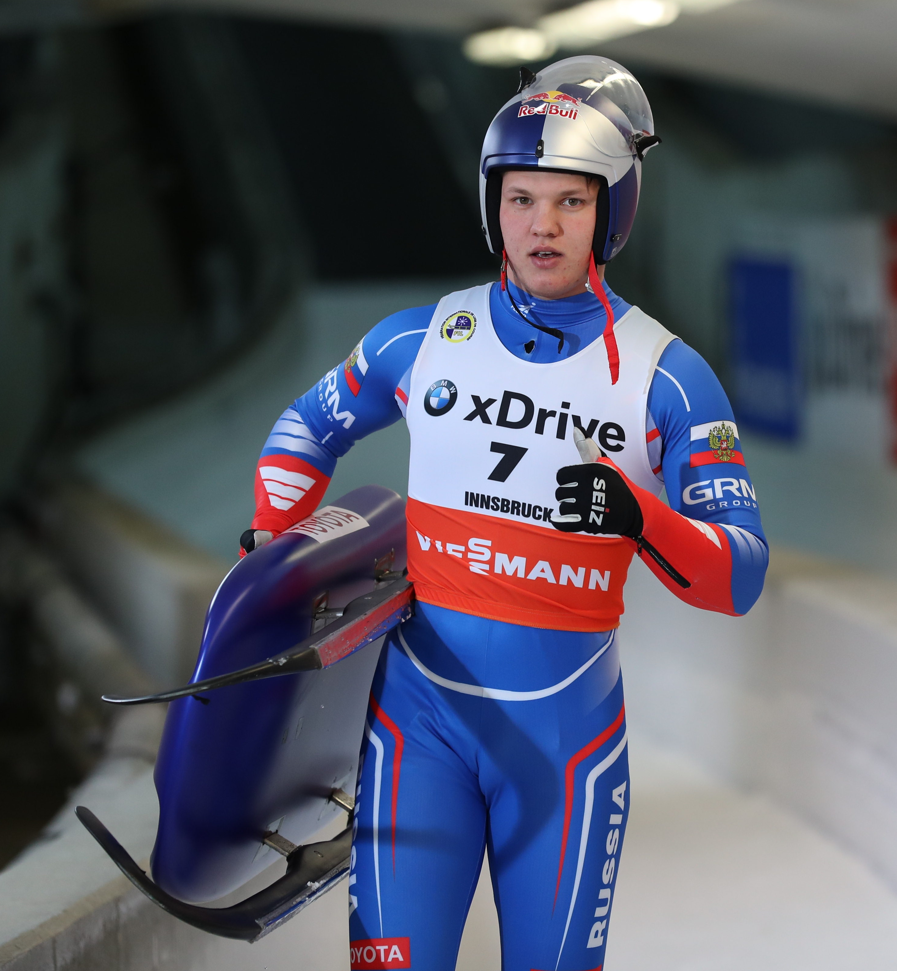 Men's Sprint World Cup race at the 2018/19 Luge World Cup in Innsbruck-Igls